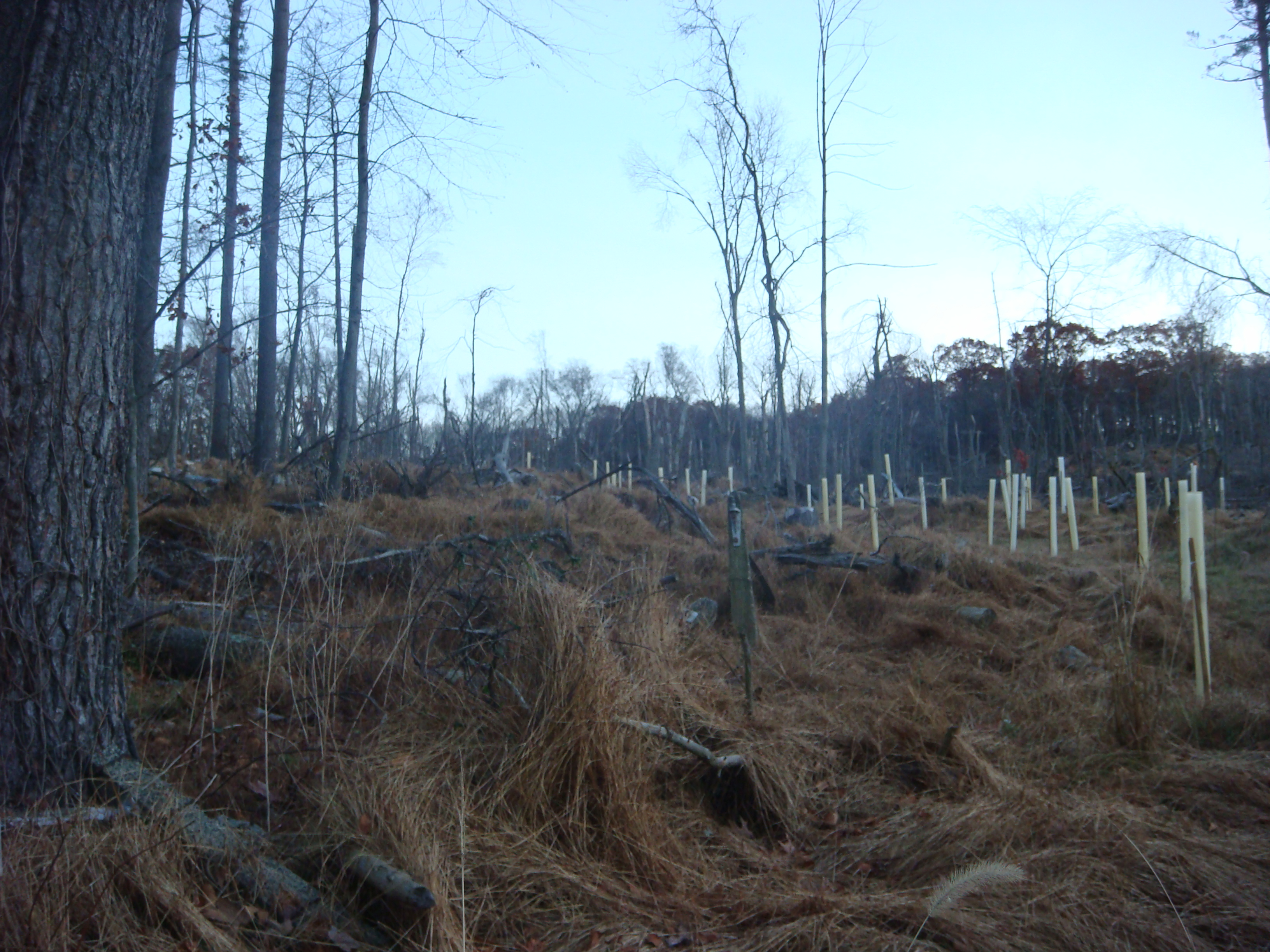 Tornado damage in Westchester County from 2006. This picture was taken a little over a year after the actual tornado. Countless trees were blown down in this area, which were later removed. The white tubes are to support the saplings which are being grown to re-flourish the affected area.